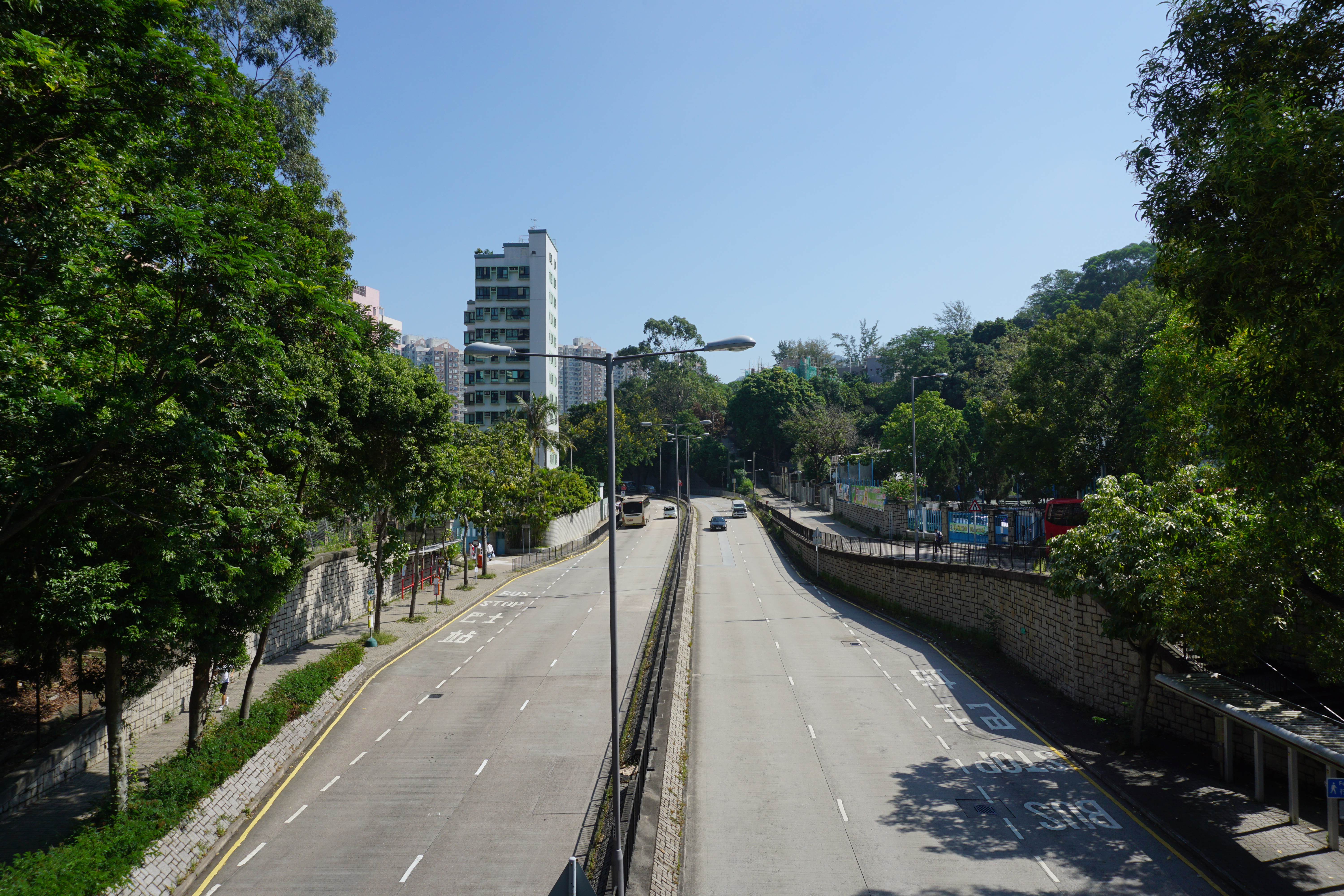 Pak Wo Road in Fanling, Hong Kong.